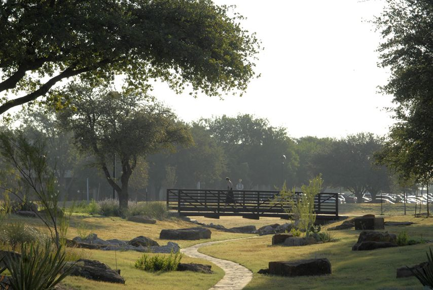 Field at Angelo State Uiniversity